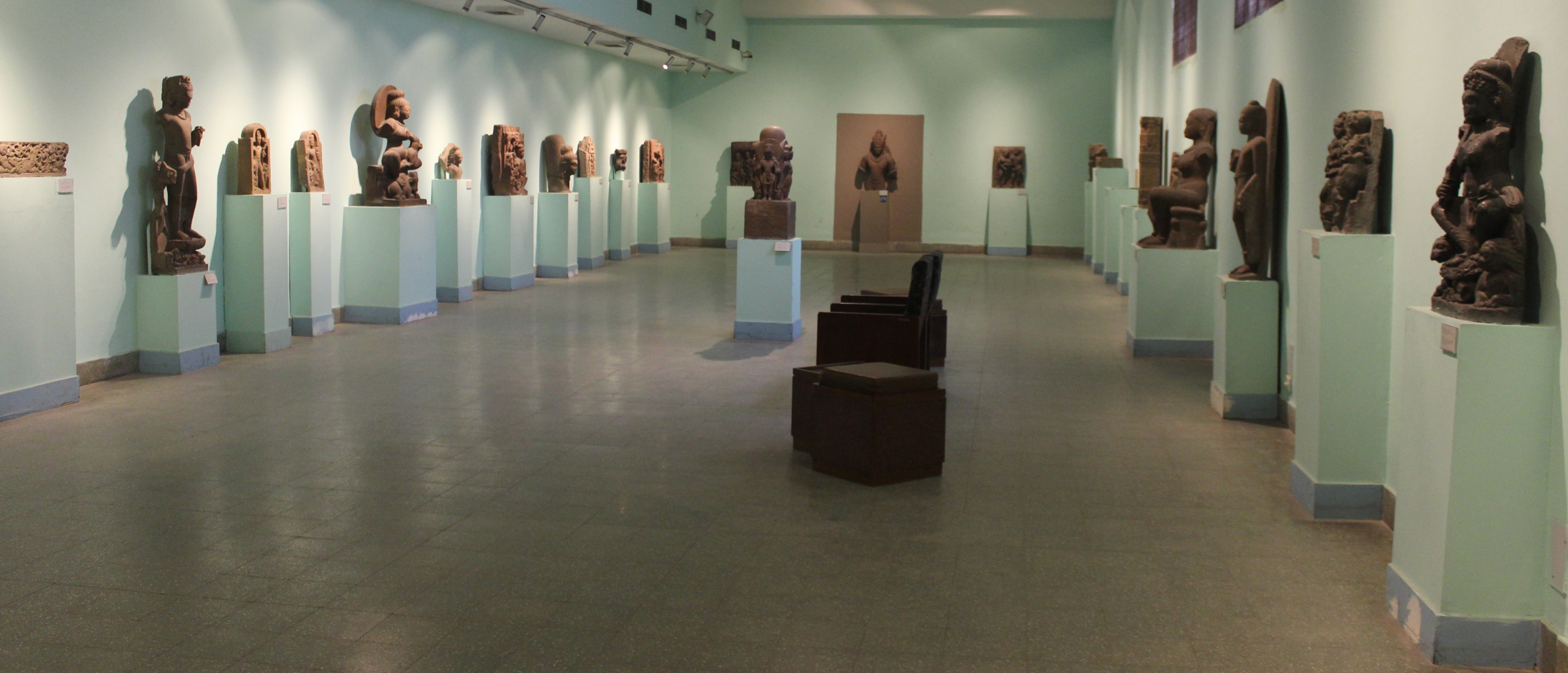 A view of the Gupta Gallery